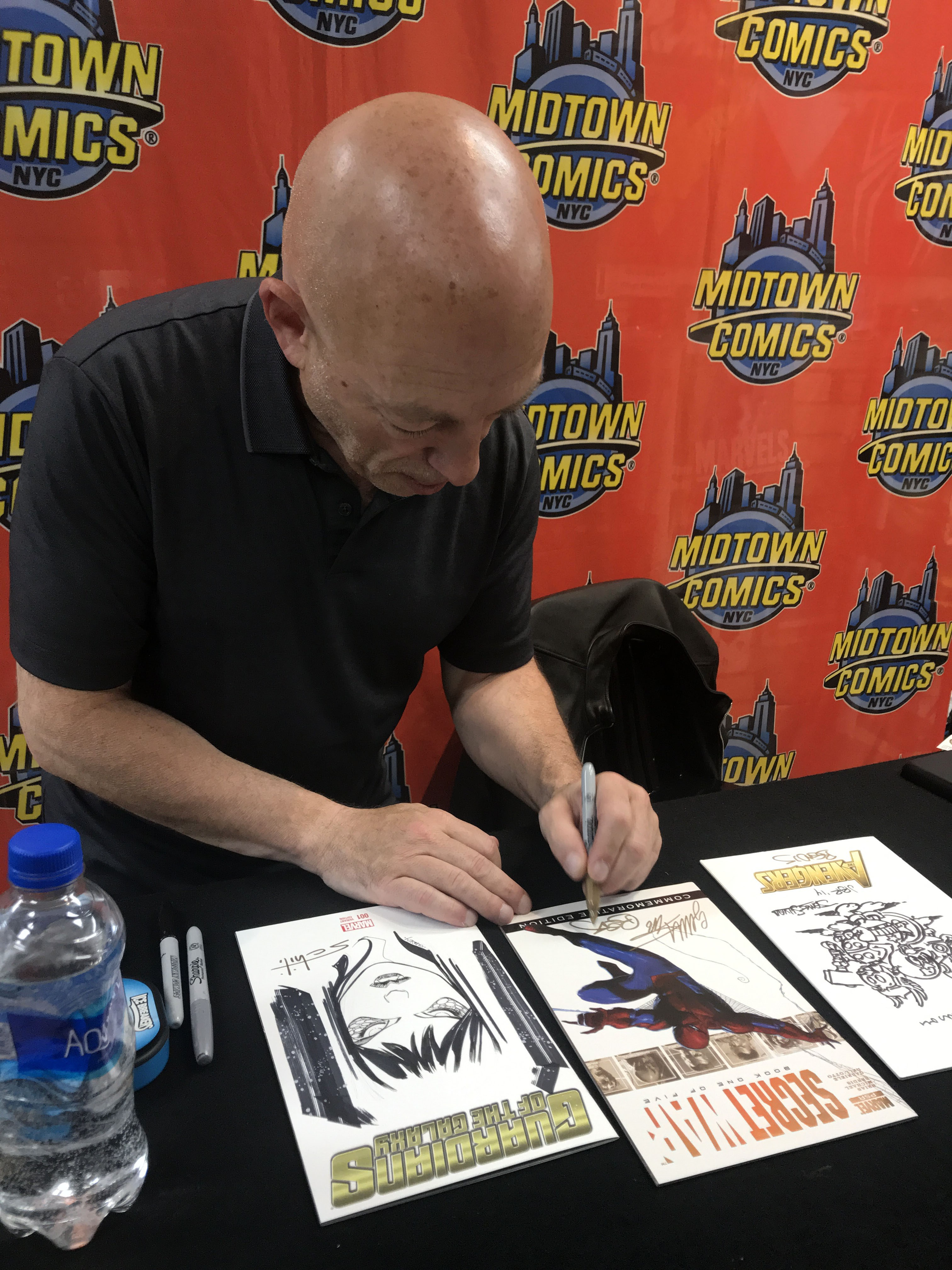 Comics writer Brian Michael Bendis at a July 24, 2019 open book signing at Midtown Comics Downtown in Lower Manhattan. In the photo, Bendis is signing copies of Avengers, Secret War and Guardians of the Galaxy. This photo was created by Luigi Novi. It is not in the public domain, and use of this file outside of the licensing terms is a copyright violation.